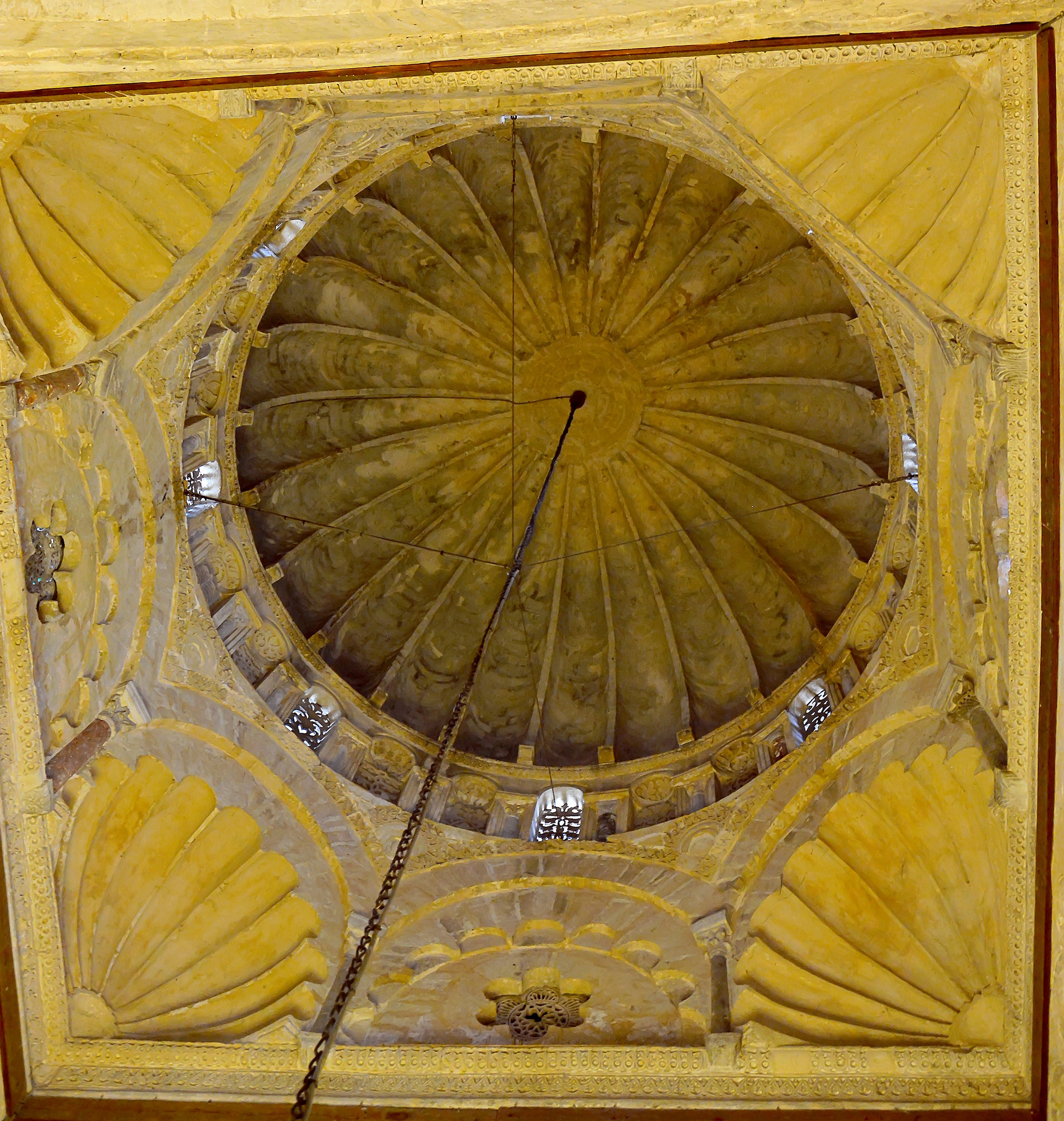 Grande Mosquée (Sidi Okba): details of the main dome